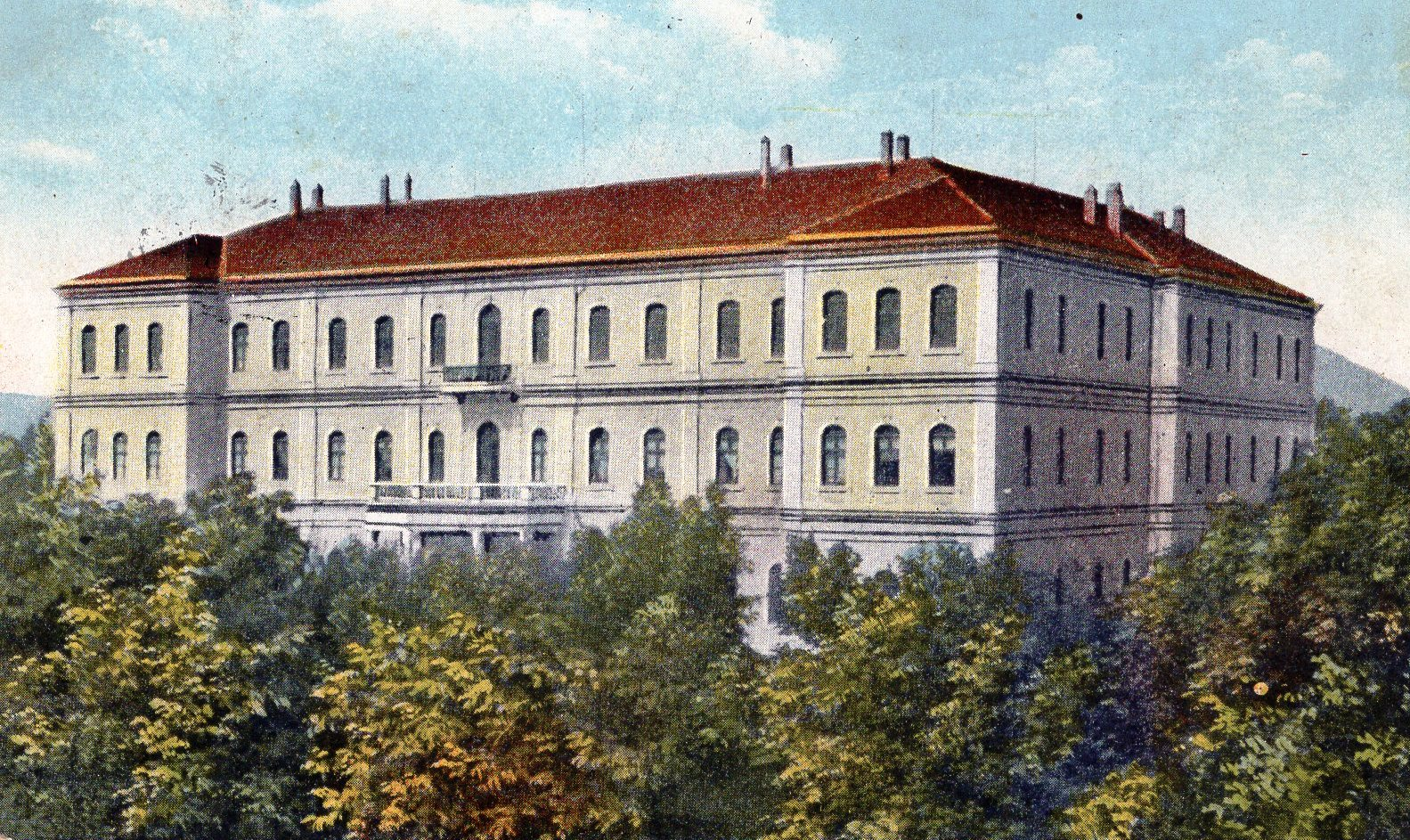 Postcard of Skopje. Teacher's school, 1928 This media file is produced by Wikipedian in Residence in Category:Wikipedian in Residence at DARM in 2016.